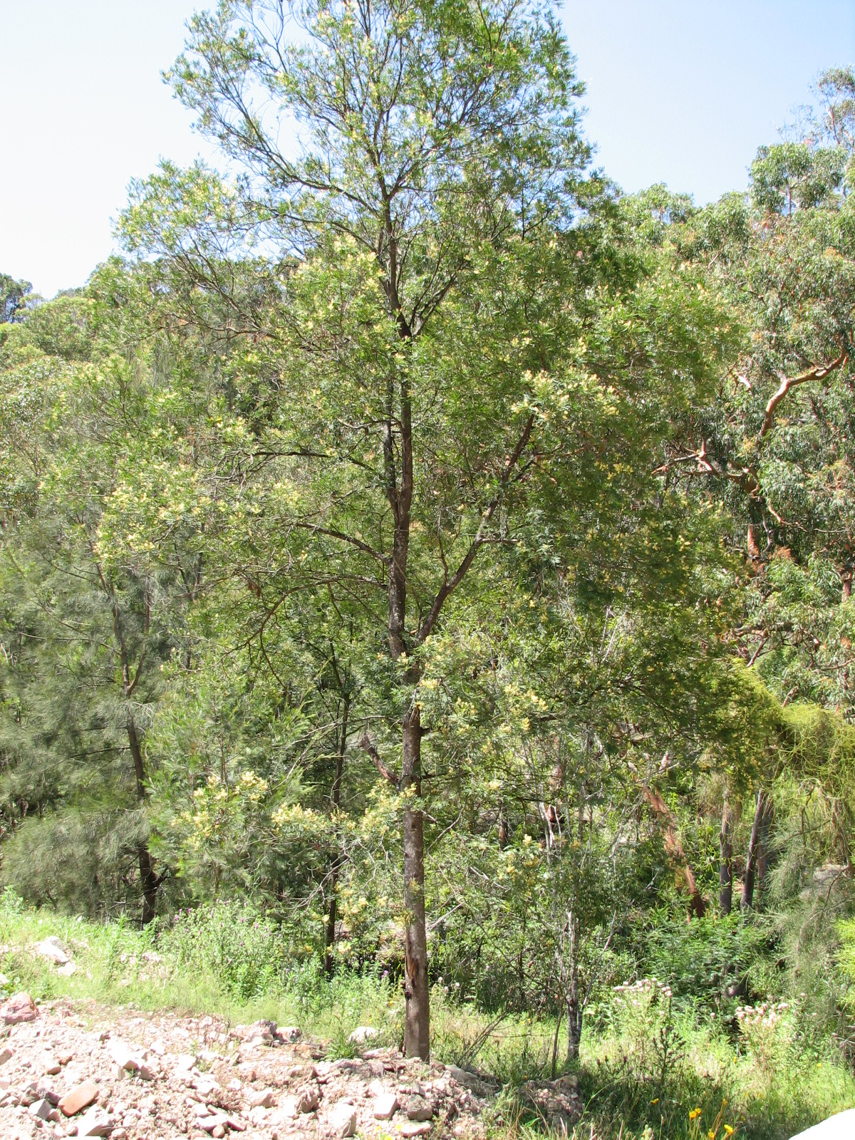 Parramatta Wattle (Acacia parramattensis) tree, taken by me at Garigal National Park, Sydney